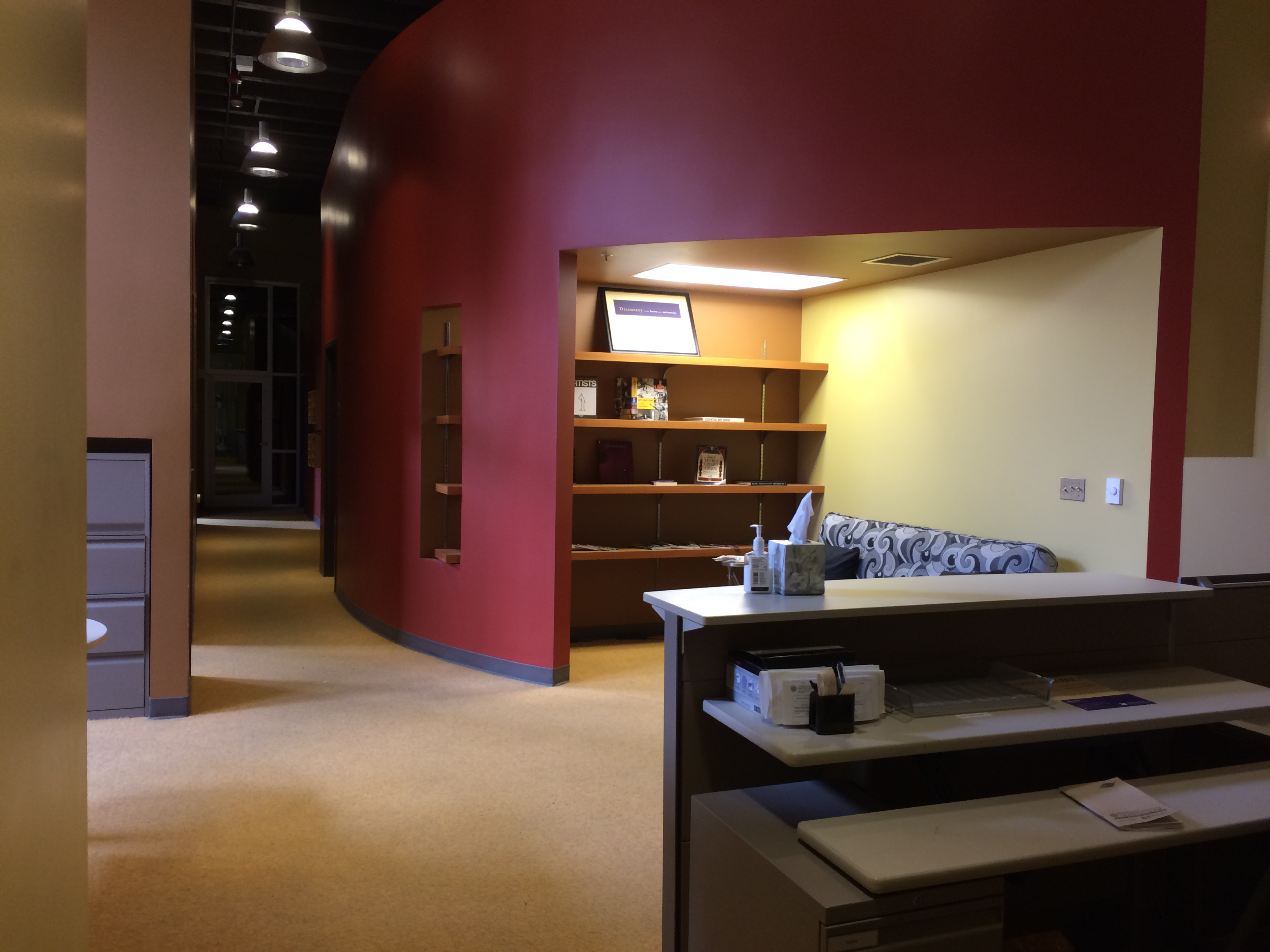 The main office of DXARTS at University of Washington